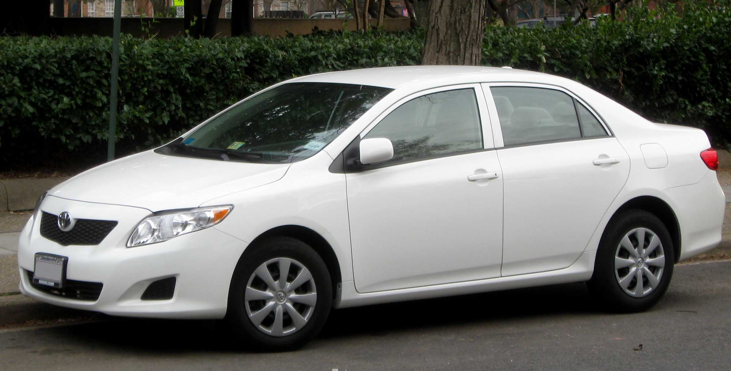 2009 Toyota Corolla photographed in Washington, D.C., USA.